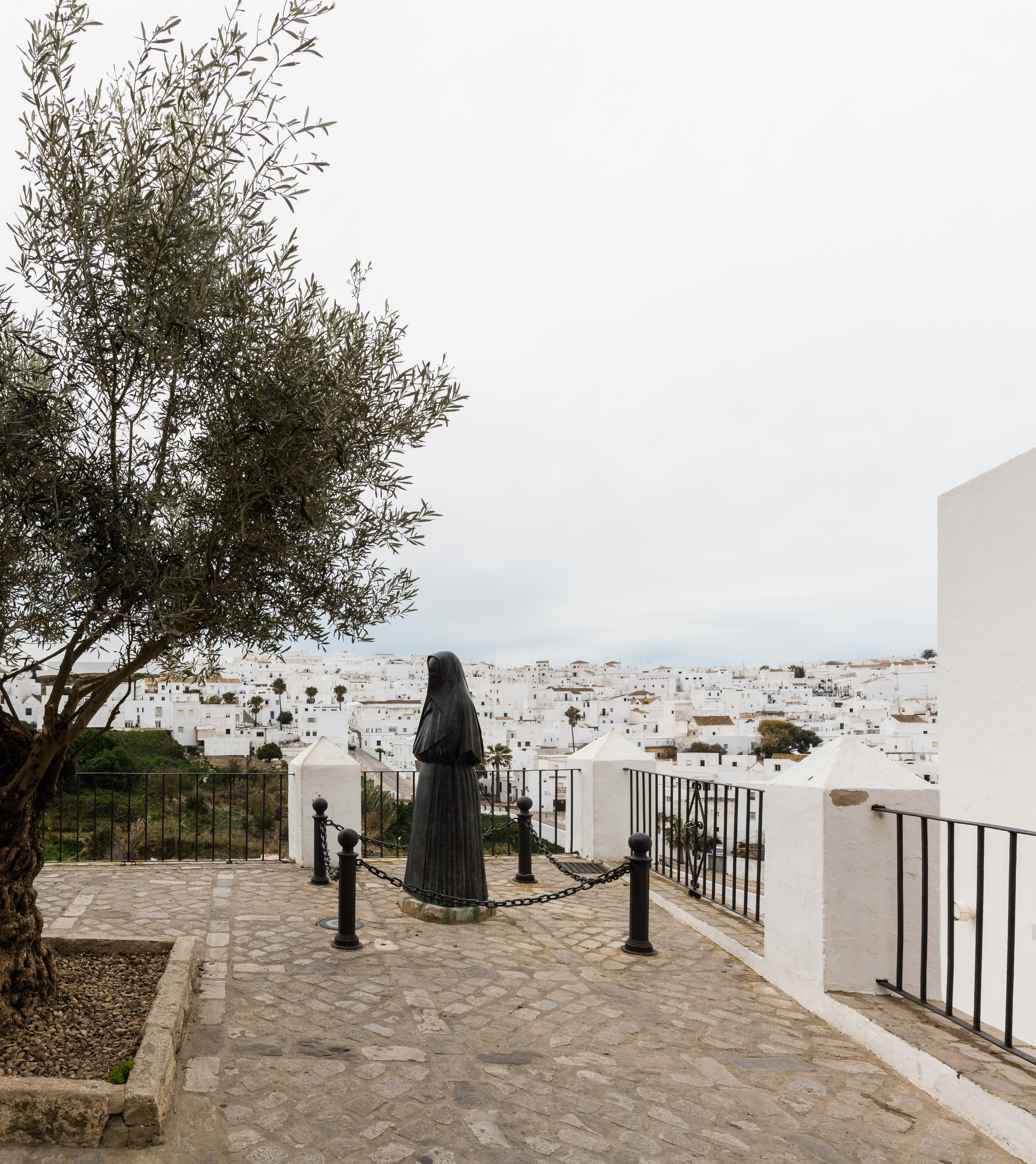 Statue of La Cobijada, Vejer de la Frontera, Cádiz, Spain